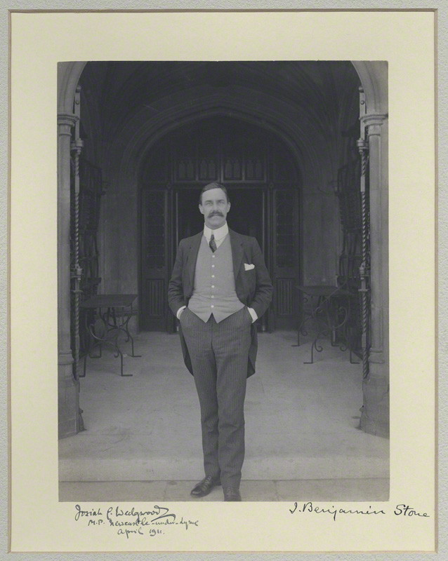 Portait of Josiah Wedgwood, 1st Baron Wedgwood